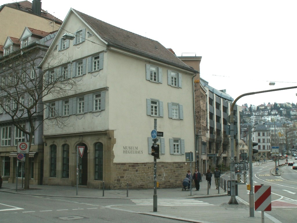 This picture shows the birthplace of Georg Wilhelm Friedrich Hegel in Stuttgart, Germany